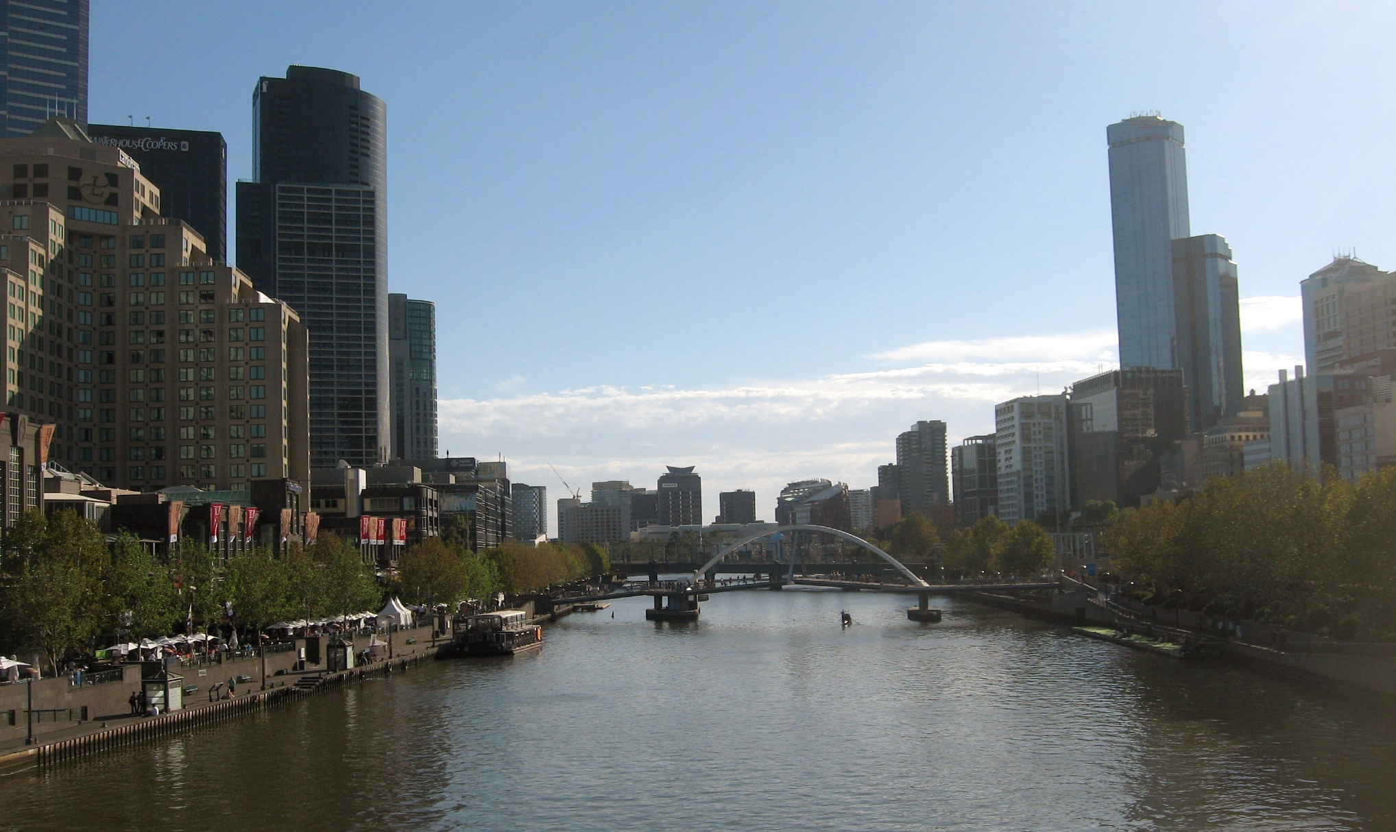 The Yarra River, south of Melbourne CBD.